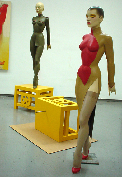 whitaker-malem-allen-jones-leather-art-sculpture